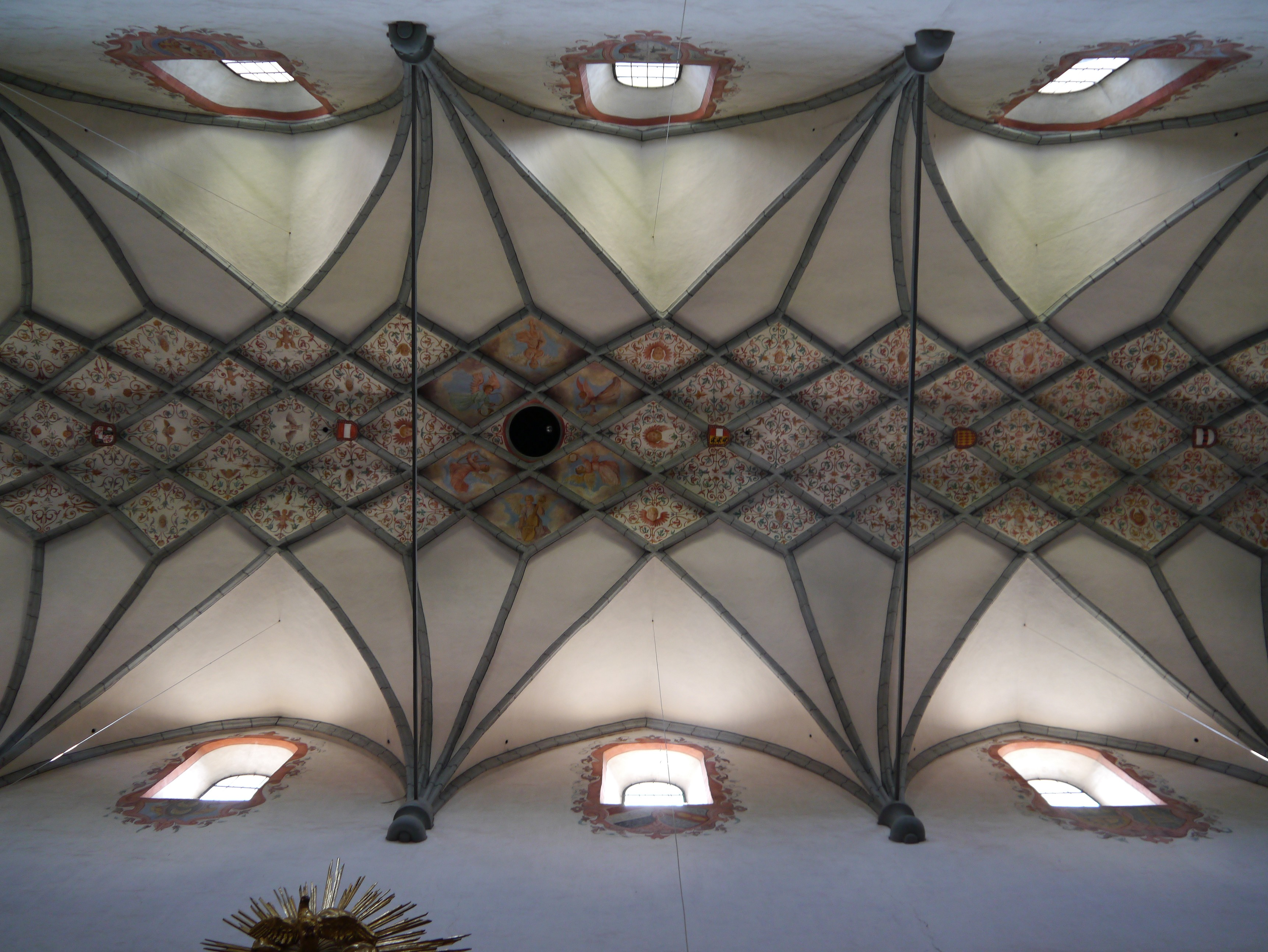 Vault of the Cathedral St. Mary Assumption, Gurk, Carinthia